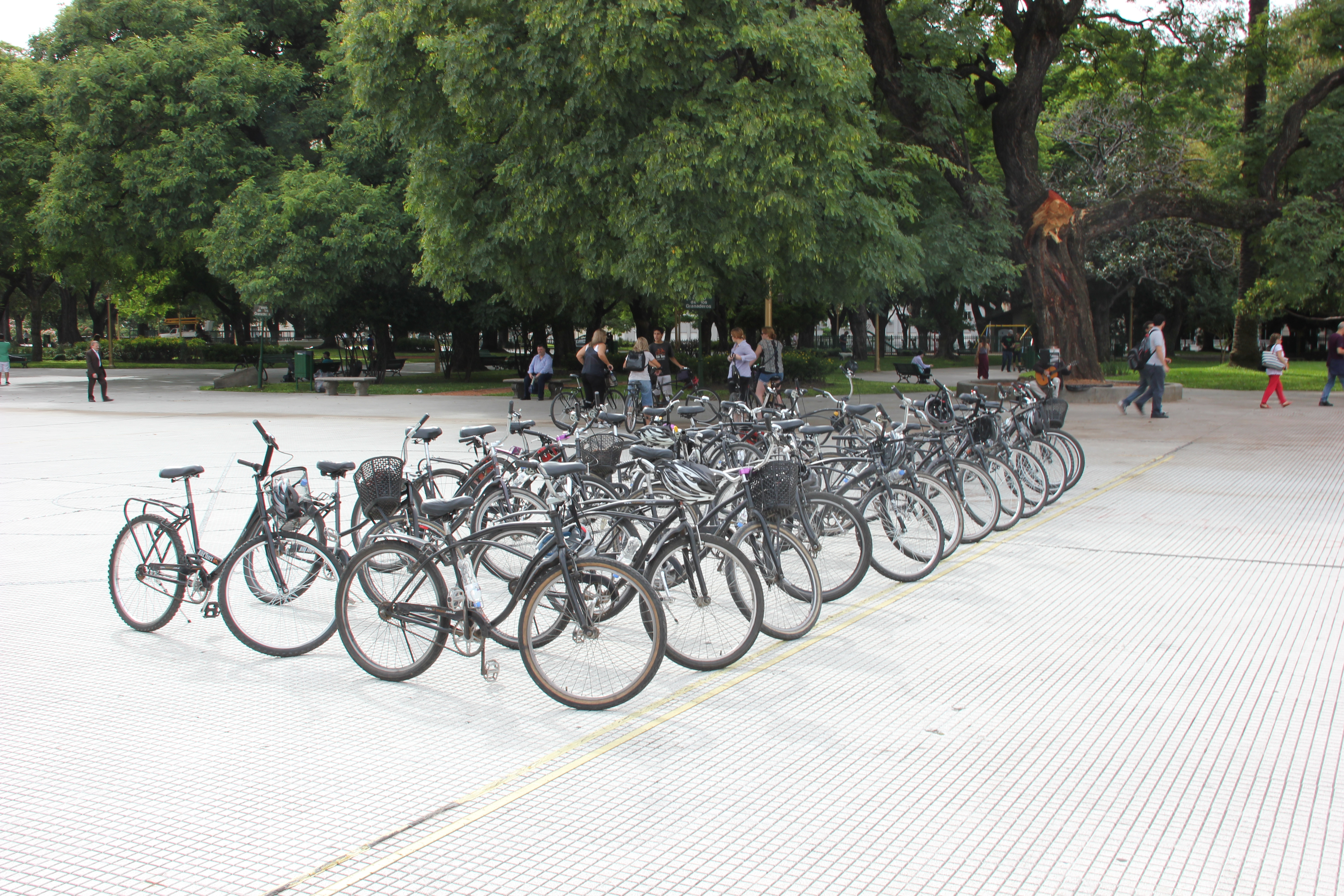 Set of bicycles in Buenos Aires.